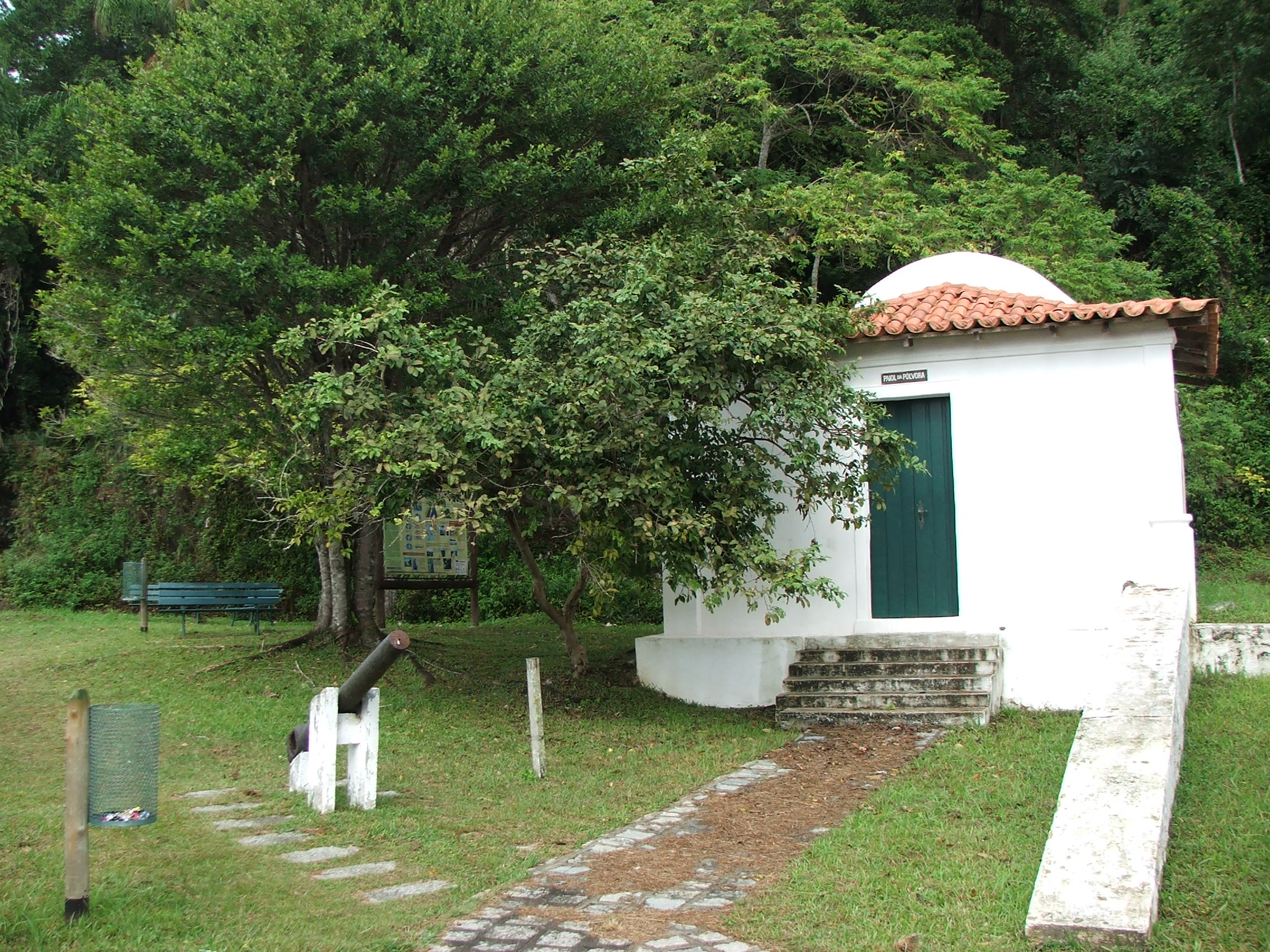 Mel Island Fort.